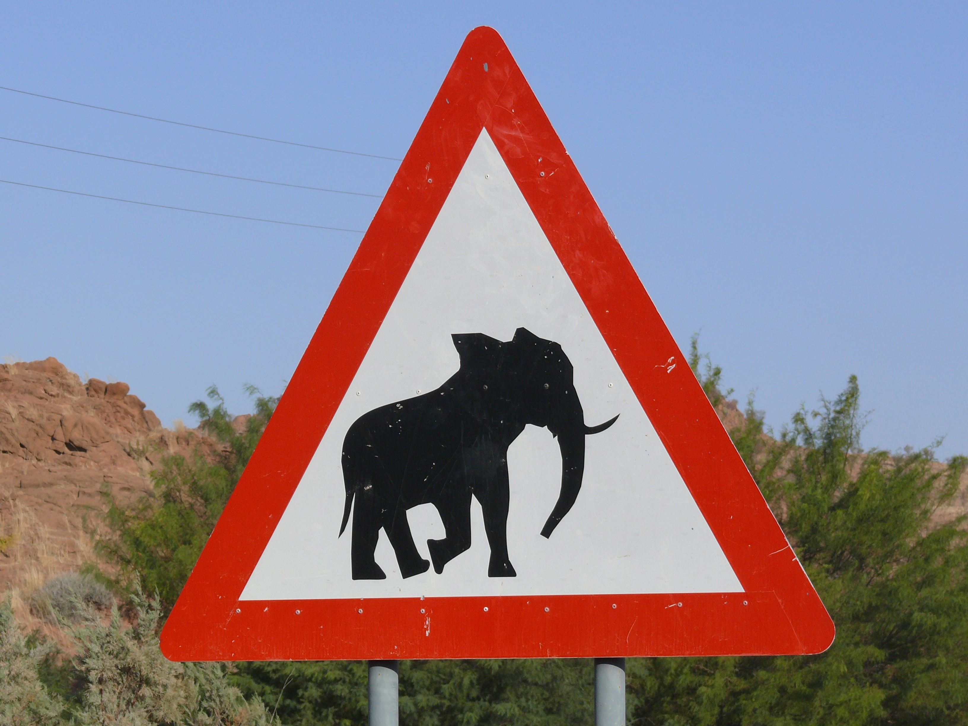 Mind the desert elephants roadsign, Brandberg